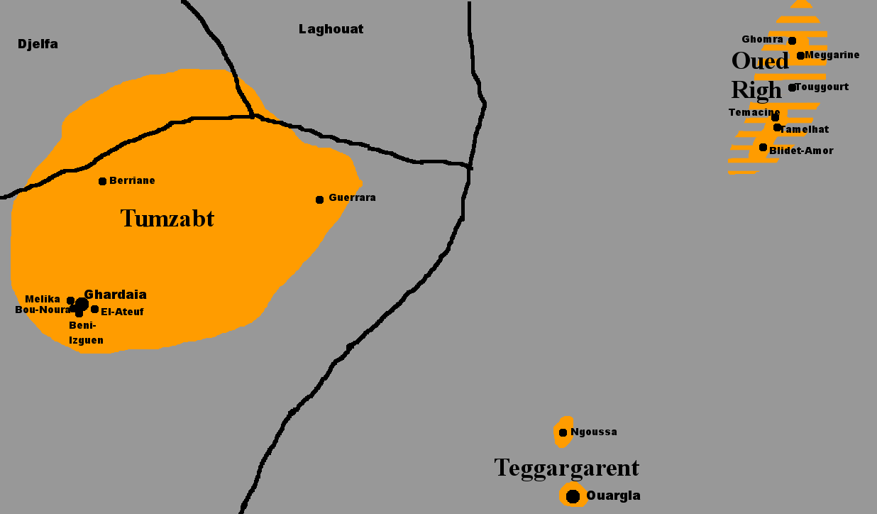 Map showing approximately where the closely related Berber languages Tumzabt, Teggargarent (Ouargla), and Oued Righ ("Temacine Tamazight") are spoken, according to the following map, based on A. Basset's data by L. Galand: "Les Parlers Berbères", included in ed. Jean Perrot, David Cohen, Les langues dans le monde ancien et moderne: langues chamito-sémitiques, Editions CNRS: Paris 1988. Wilaya boundaries after Google Maps. The swathes of color need not be taken too literally - most of this area is uninhabitable desert, after all.